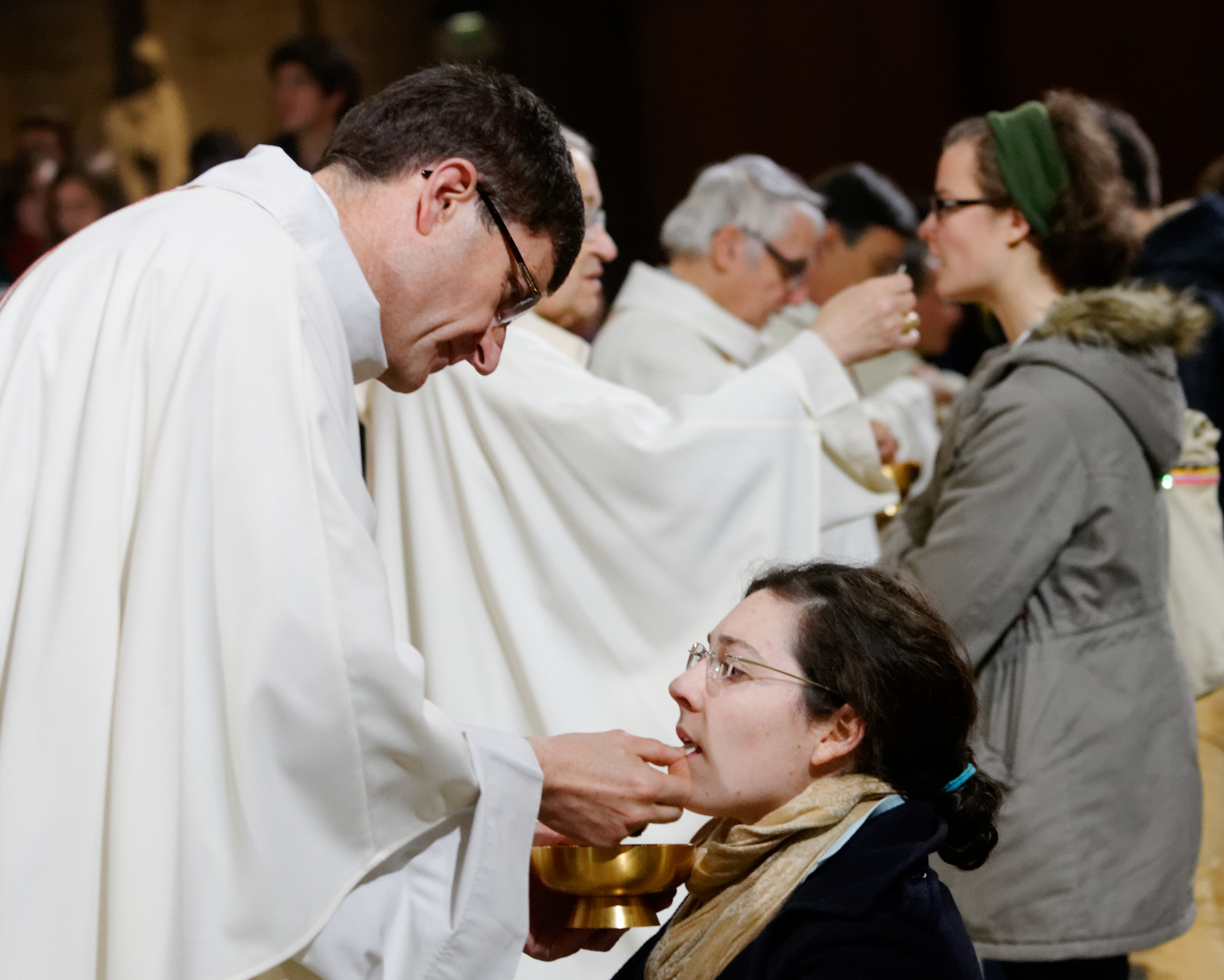 Communion received kneeling, on the tongue. Île-de-France students' mass in Cathedral Notre Dame de Paris celebrated by Mgr André Vingt-Trois.